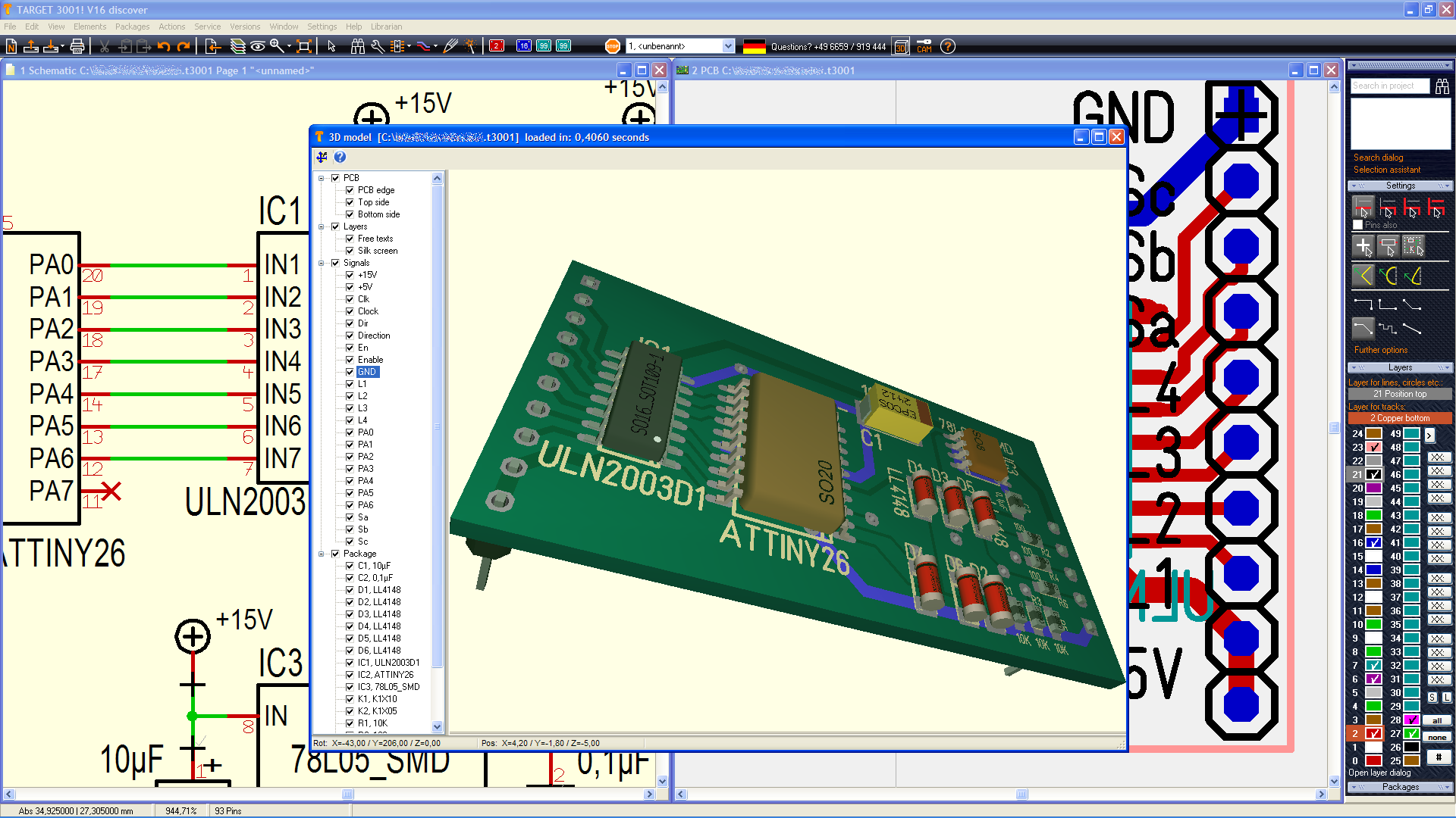 Screenshot of the TARGET 3001! user interface.png